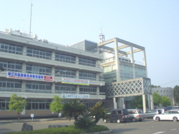 Sabae City Hall in Fukui Preferture, Japan